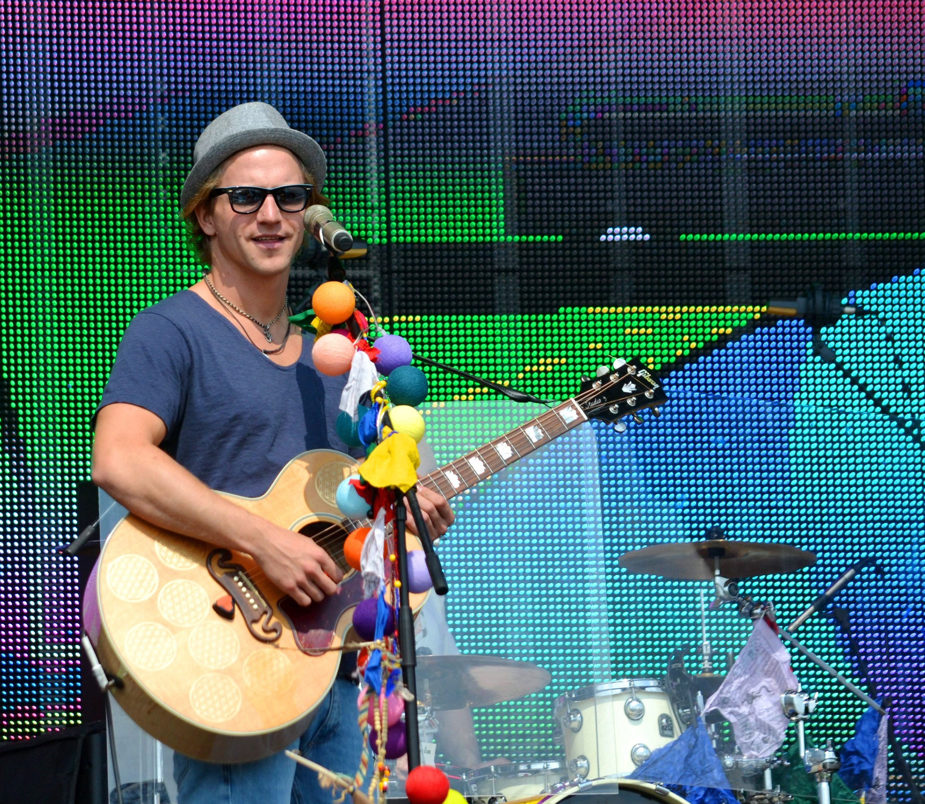 Tomáš Klus, Czech musician and vocalist